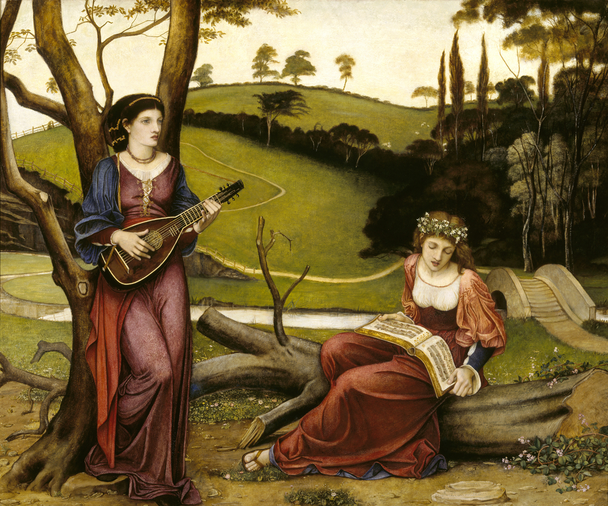 The title is inspired from a quotation from William Morris's 'The Earthly Paradise': Oh, friends, content you! this is much indeed, And we are paid, thus garnering for our need Your blessings only, bringing in their train God's blessings as the south wind brings the rain. And for the rest, no little thing shall be (Since ye through all yet keep your memory) The gentle music of the bygone years, Long past to us with all their hopes and fears.